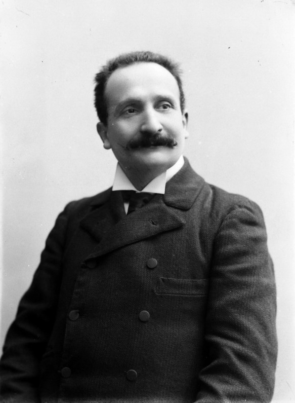 Francesco Garzes photographed by Mario Nunes Vais